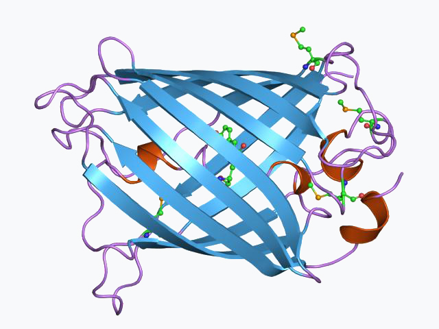 Cartoon representation of the molecular structure of protein registered with 1ema code.